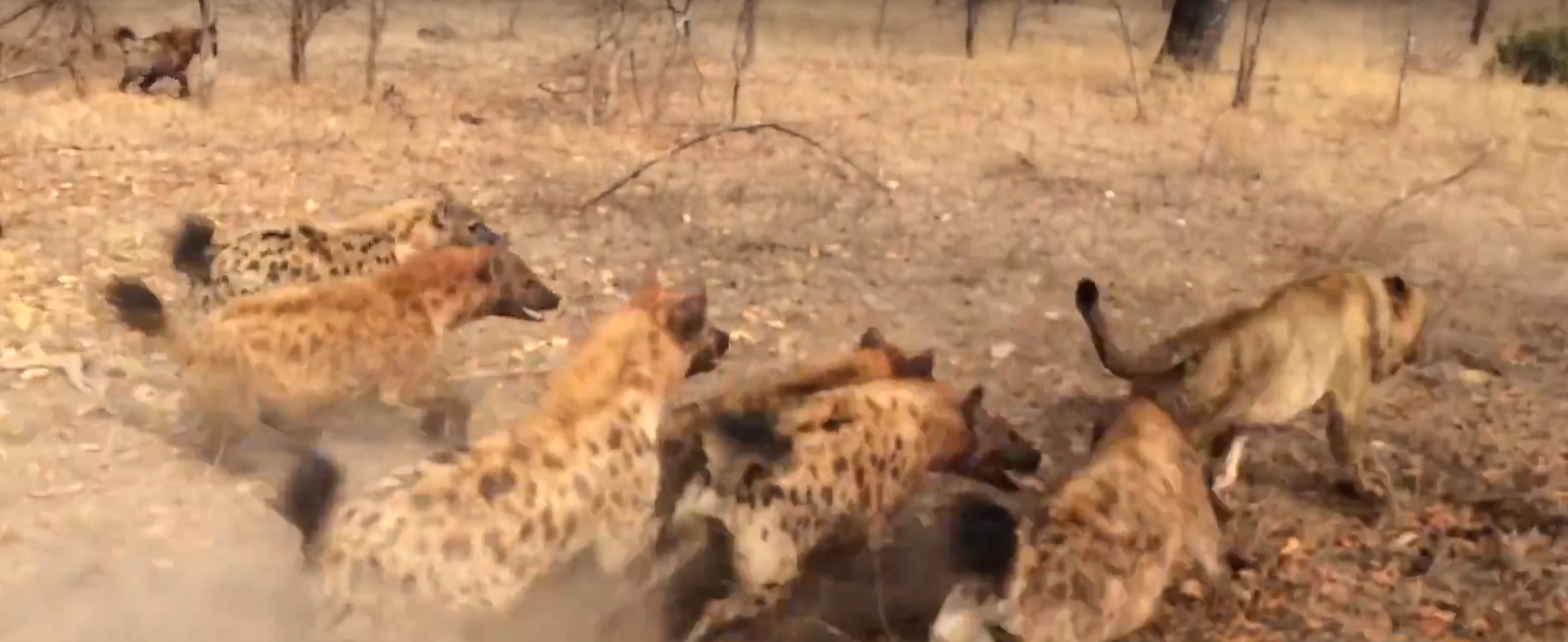 Hyenas clashing with lions at the Sabi Game Reserve